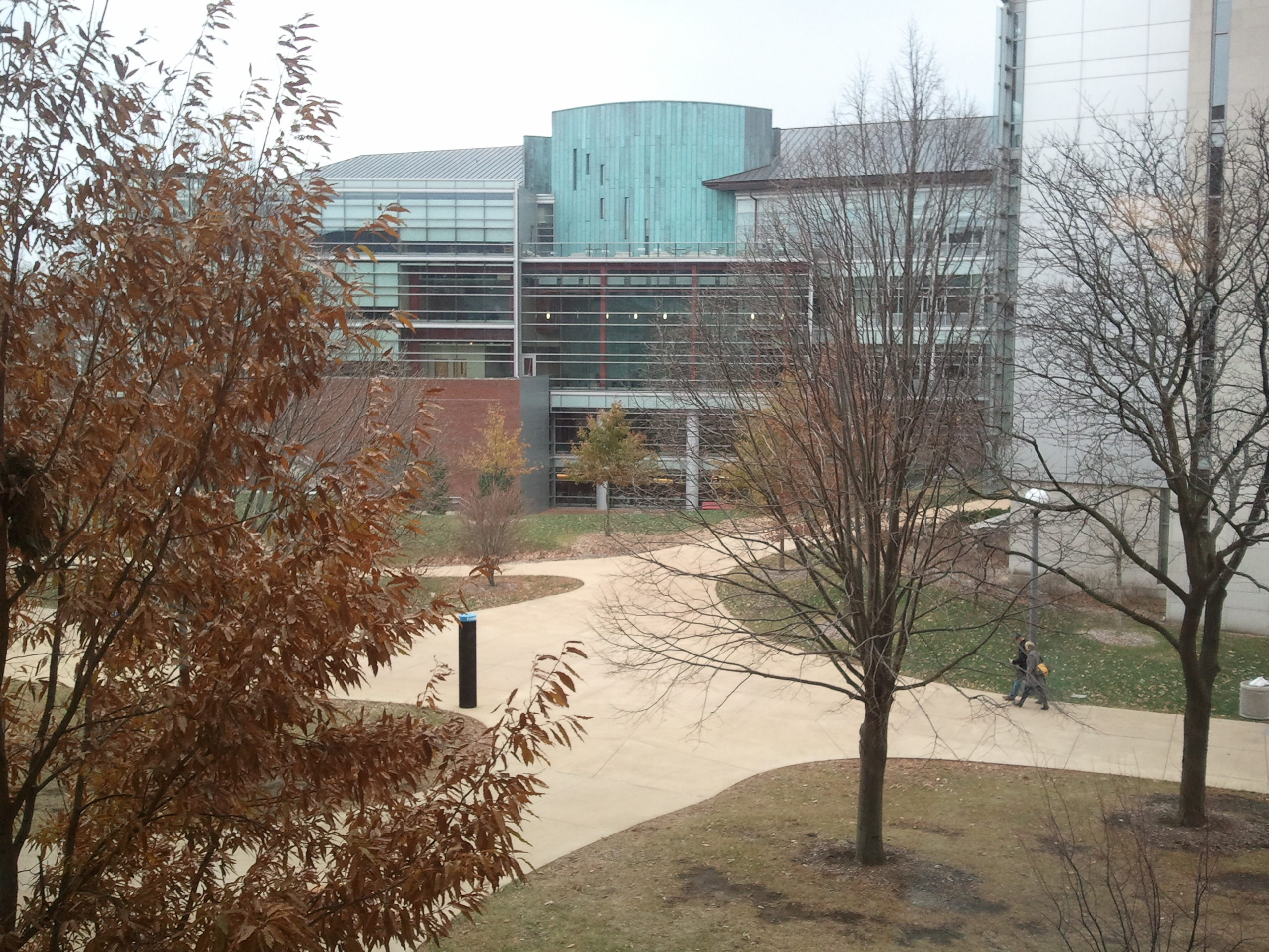 A photo of the Thomas M. Siebel Center for Computer Science at the University of Illinois at Urbana-Champaign